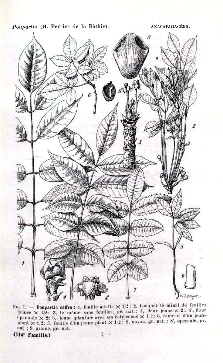 Sclerocarya birrea subsp. caffra (Sond.) Kokwaro published as Poupartia caffra (Sond.) H. Perrier